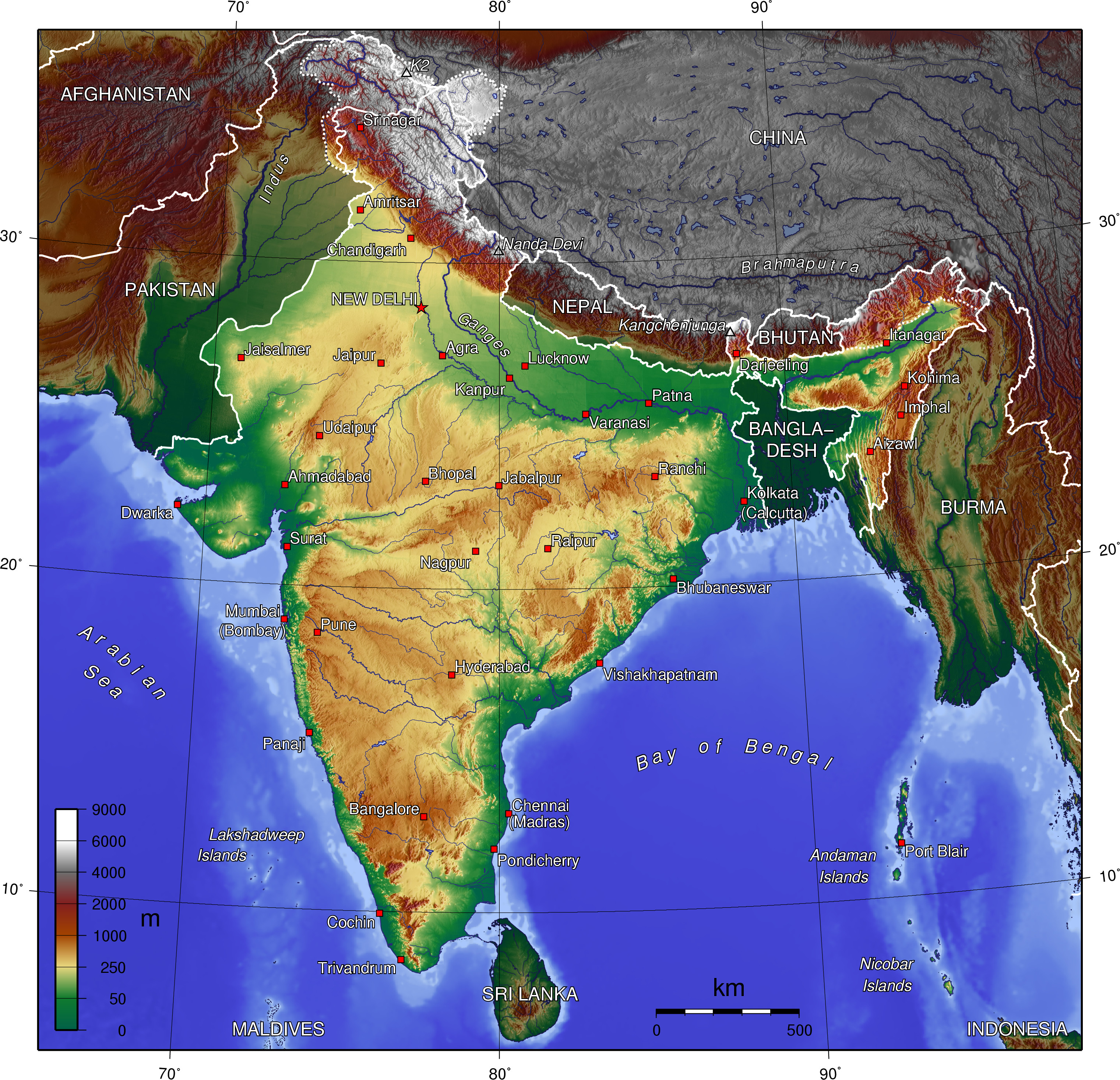 topographic map of India